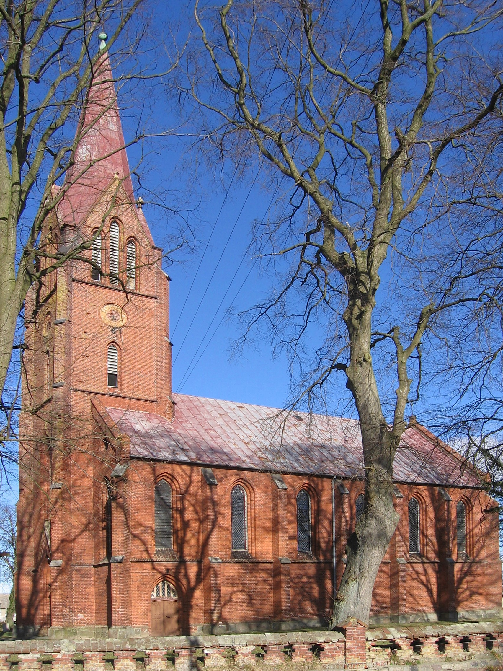 The Holy Cross Church in Karcino, Poland